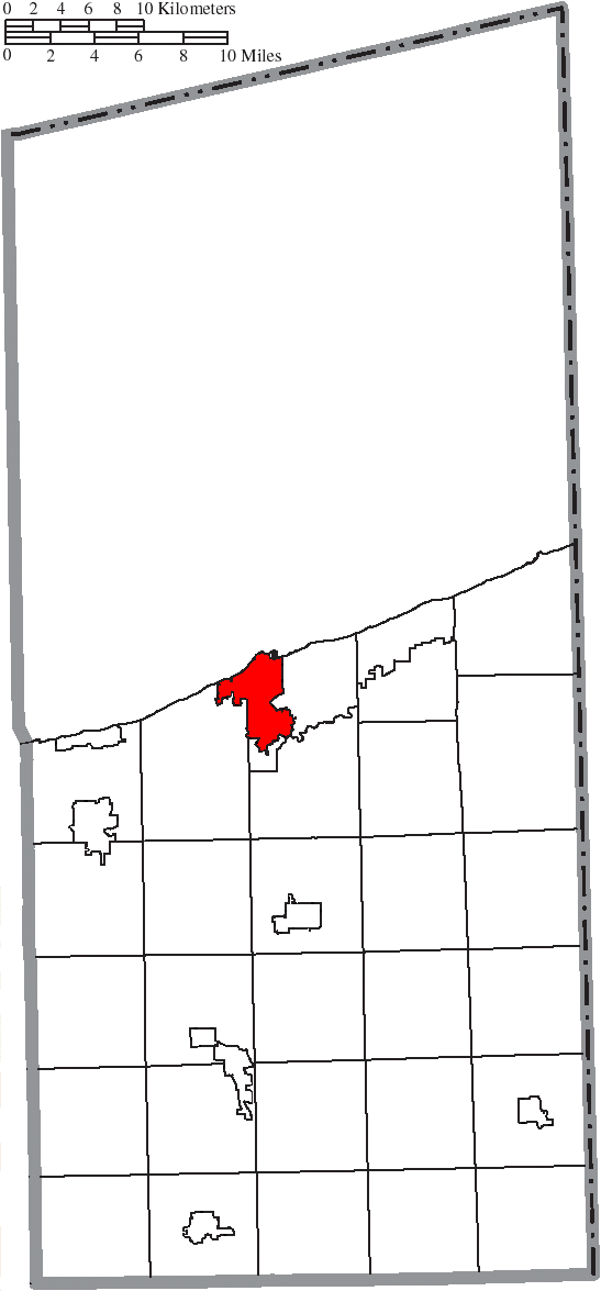 Map of the municipal and township boundaries of Ashtabula County, Ohio, United States, as of the 2000 census, with the location of the city of Ashtabula highlighted. Township borders are shown only in unincorporated areas in order to differentiate incorporated and unincorporated areas more clearly.